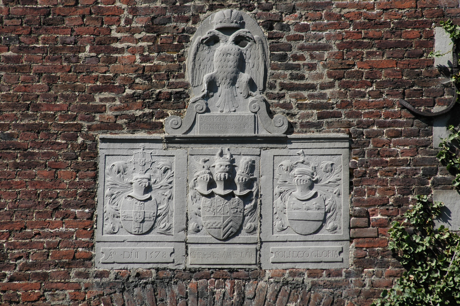 Coats of arms above the main entrance of the Teutonic Order commandry in Aldenhoven-Siersdorf